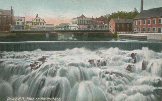 Falls on the Cochecho River, Dover, NH; from a c. 1910 postcard.